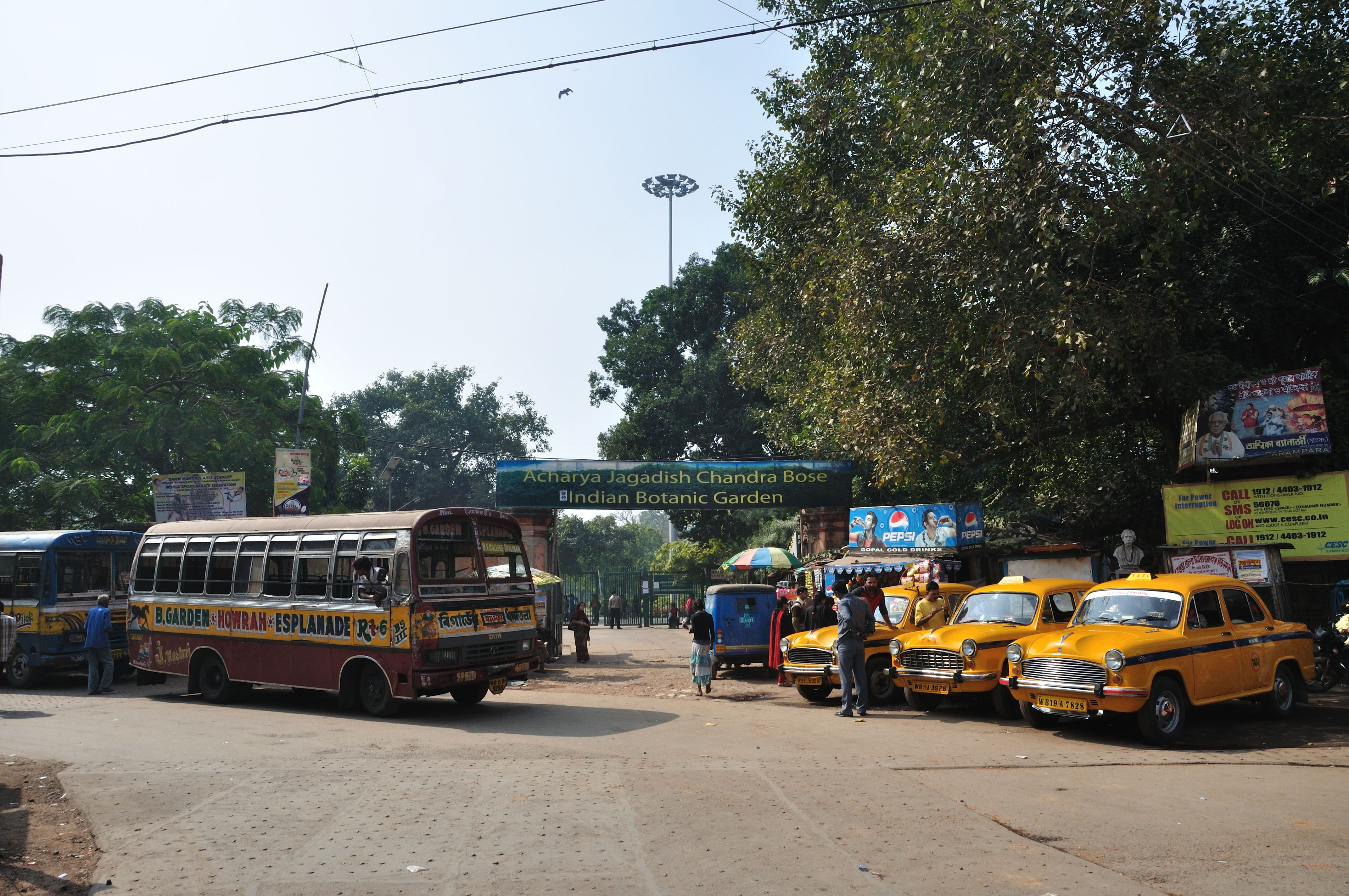 The botanical garden at Howrah, was known as ‘East India Company’s Garden’ or the ‘Company Bagan’ or ‘Calcutta Garden’ and later as the ‘Royal Botanic Garden’ which after independence was renamed as the ‘Indian Botanic Garden’ in 1950. It came under the management of the Botanical Survey of India on January 1, 1963. From June 25, 2009 it is renamed as ‘Acharya Jagadish Chandra Bose Indian Botanic Garden’.